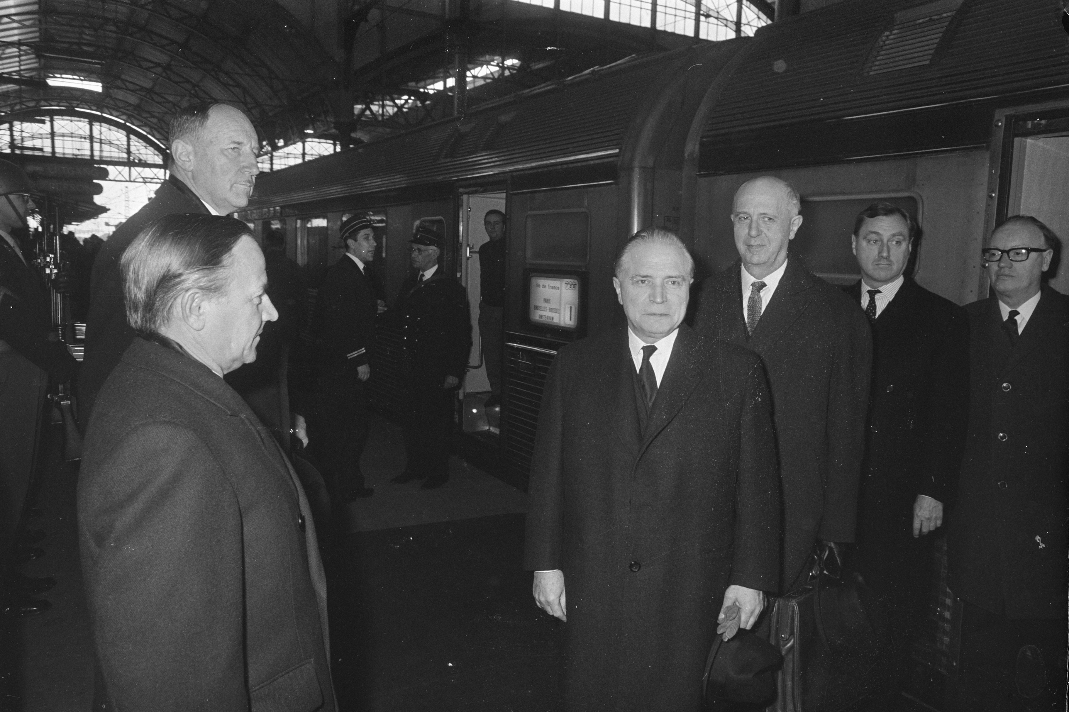 From left to right: Joseph Luns (Minister of Foreign Affairs of the Netherlands), Piet de Jong (Prime Minister of the Netherlands), Gaston Eyskens (Prime Minister of Belgium) and Pierre Harmel (Minister of Foreign affairs of Belgium).